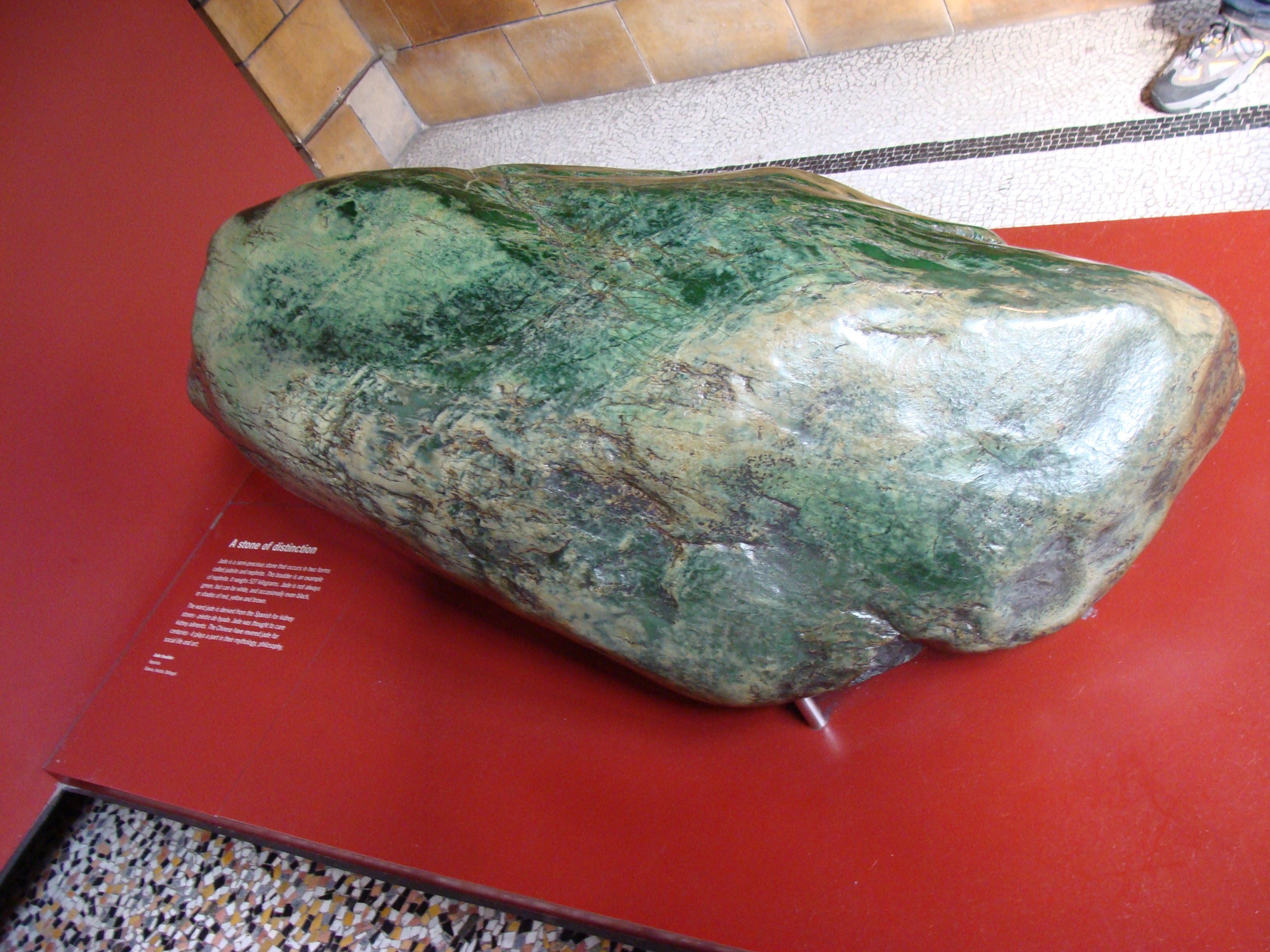 Jade Boulder in the Natural History Museum of London